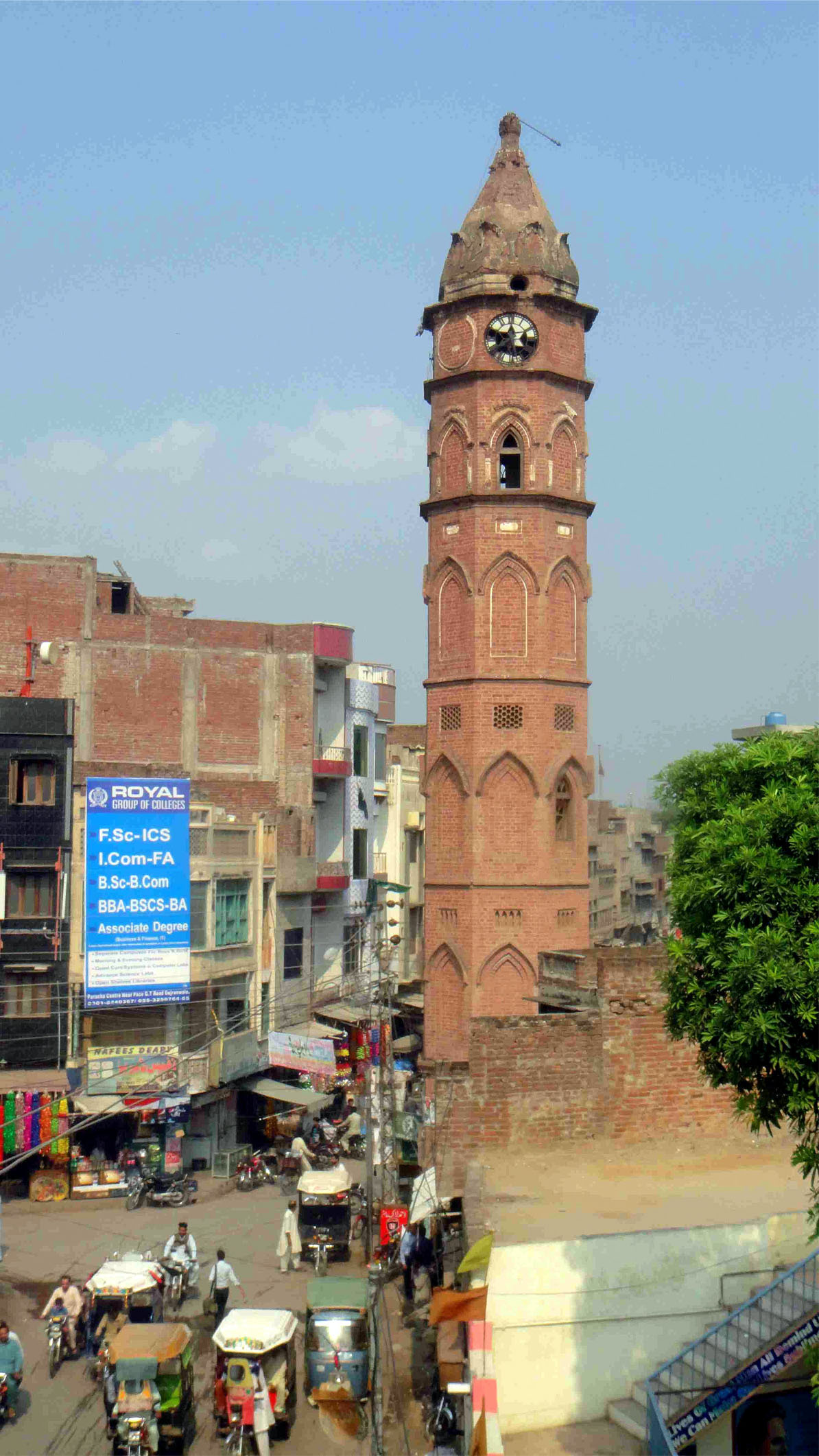 view 12 taken from at the roof top.